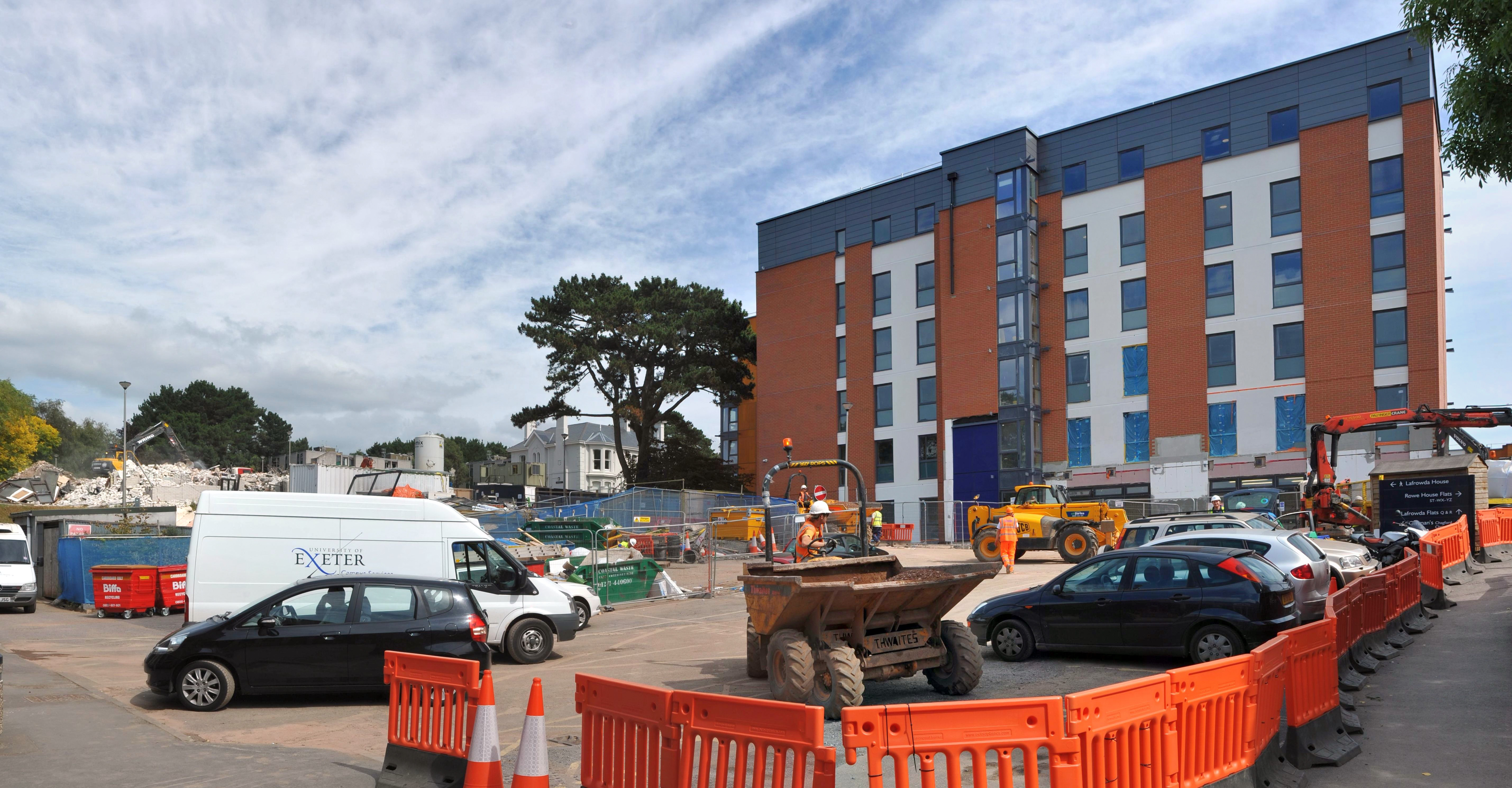 Some of the building work on the Lafrowda halls of residence at University of Exeter, August 2011